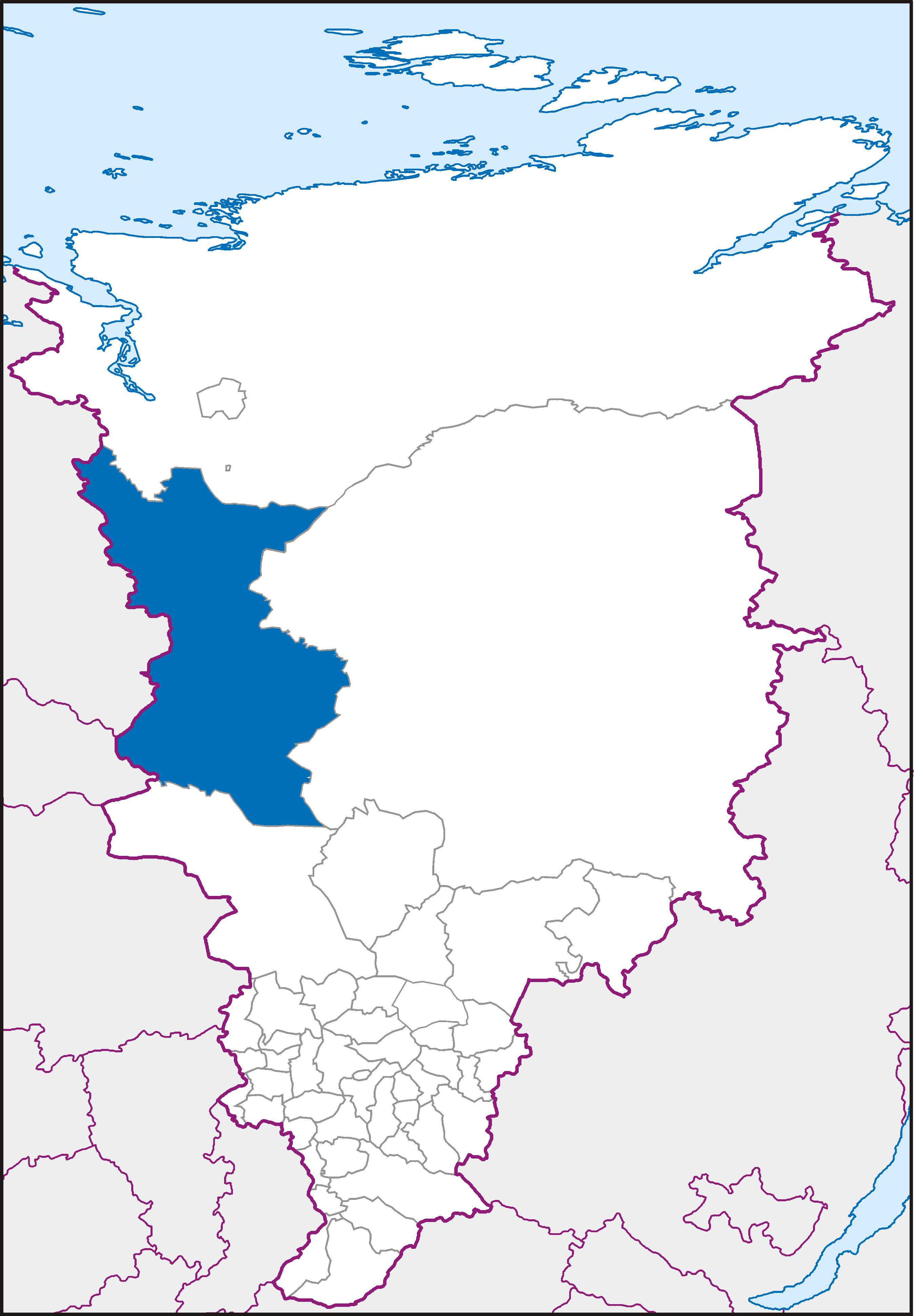 Map of Krasnoyarsk Krai in Albers Equal-Area Conic projection (Central Meridian = 95° E)